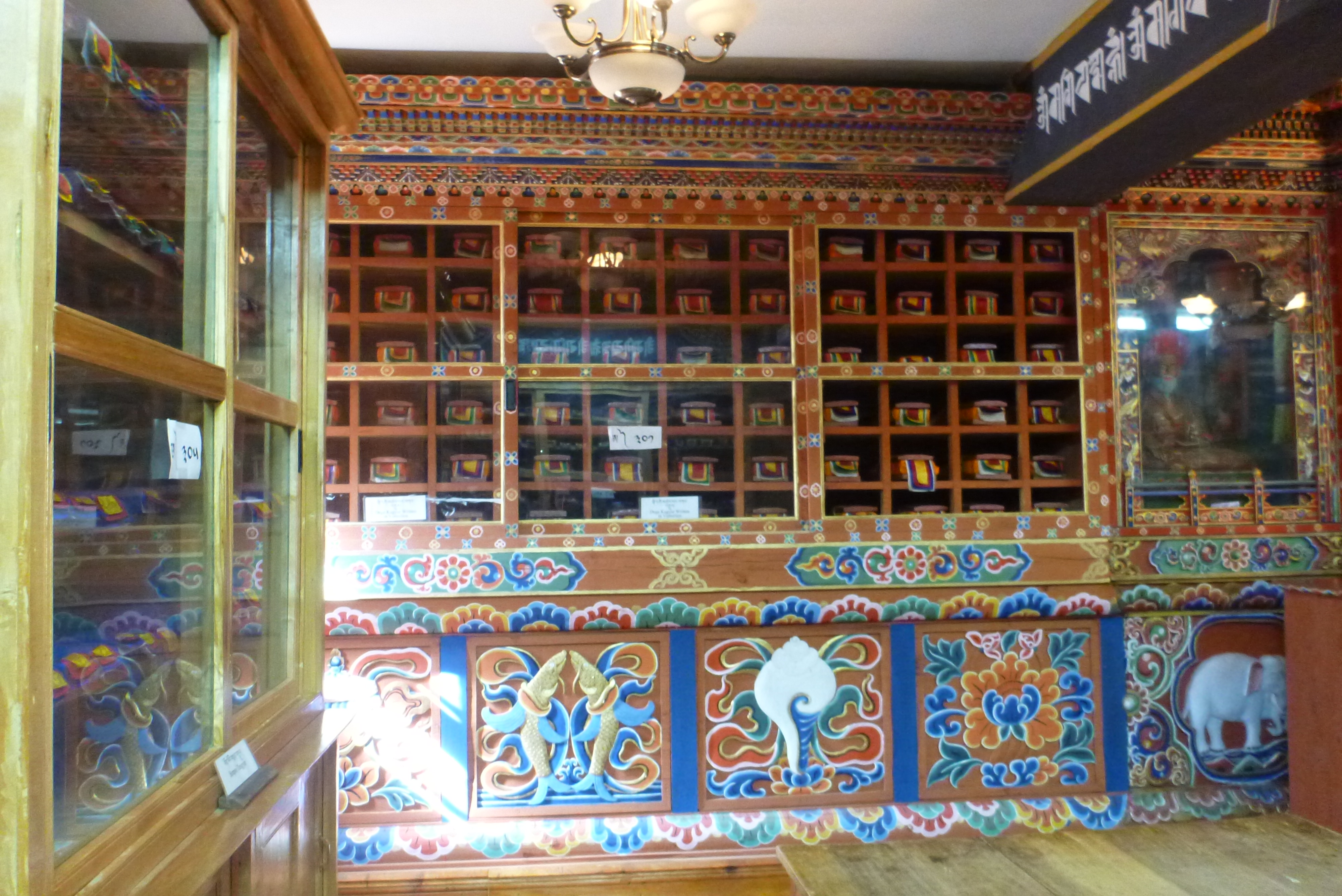 The interior of the National Library of Bhutan, located in the capital Thimphu